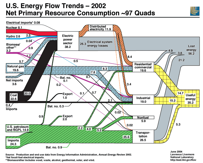 U.S. Energy Flow Trends - 2002 Net Primary Resource Consumption ~97 Quads